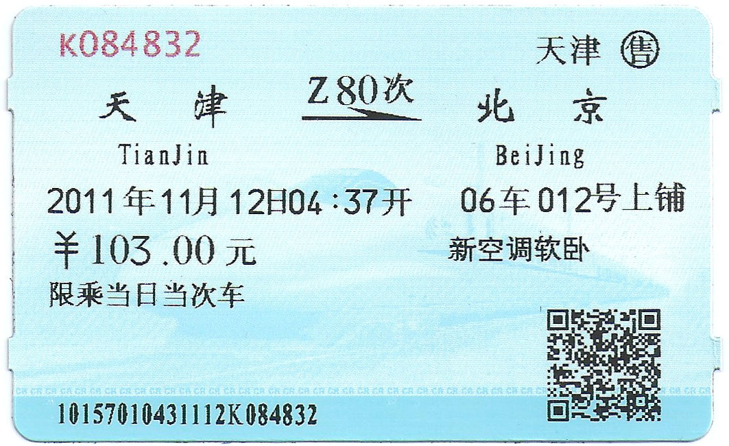 Train ticket, Z80, Tianjin to Beijing